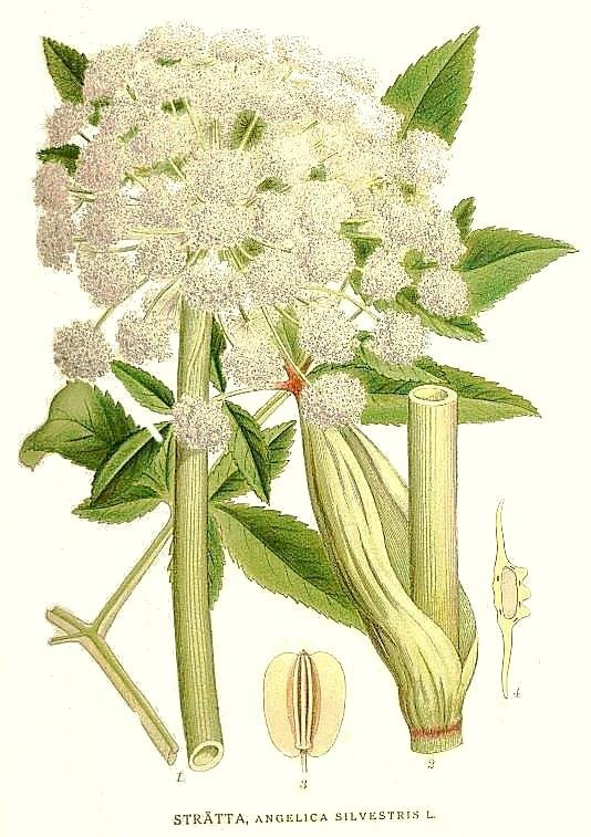 Original Description Strätta, Angelica sylvestris L.